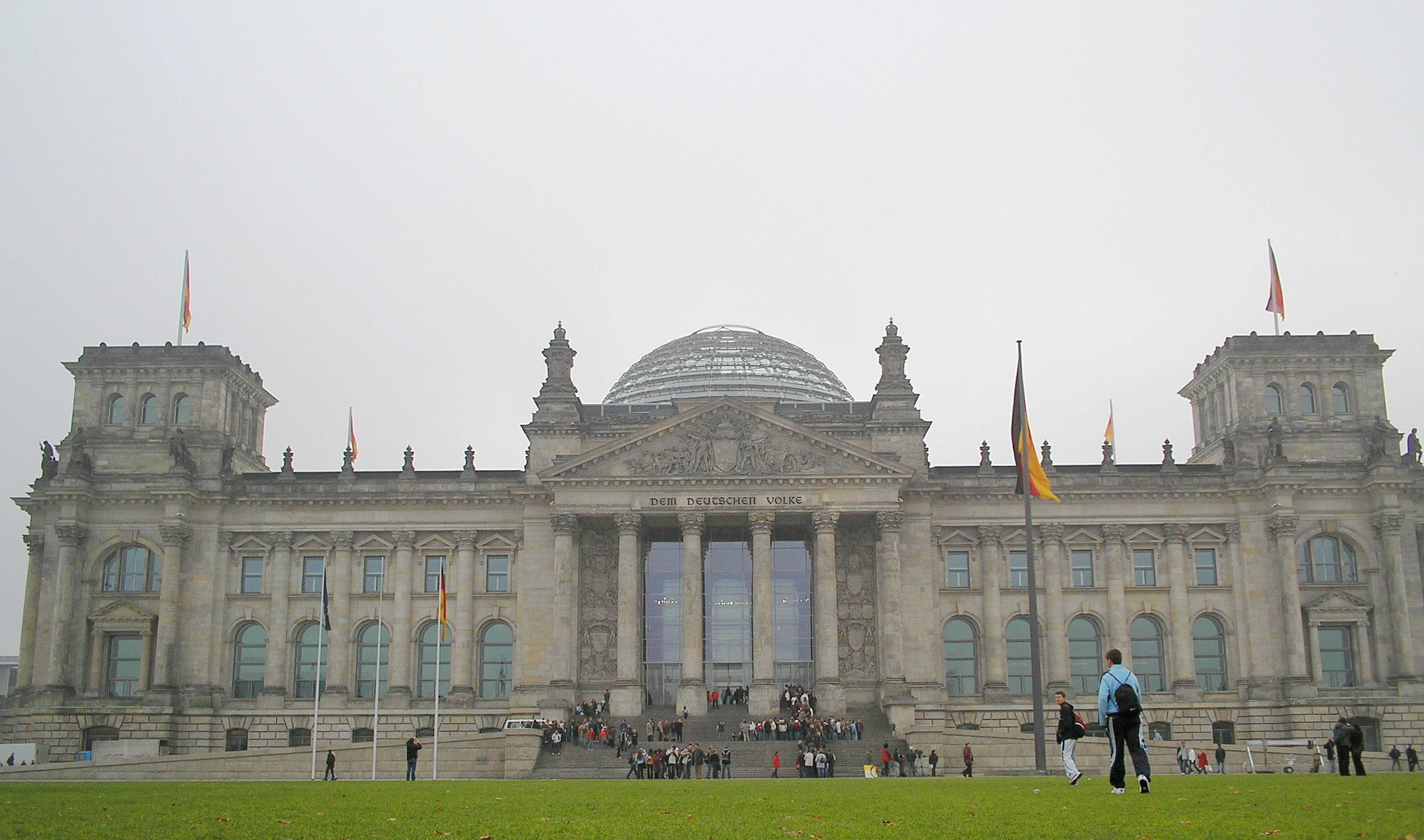 The Reichstag building in Berlin, Nov 2005.